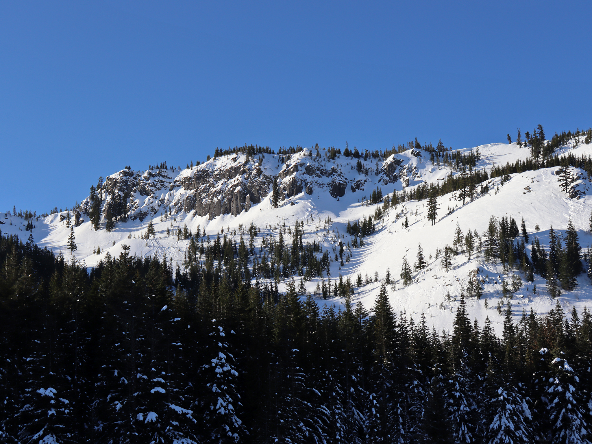 Tom Dick and Harry Mountain at Mount Hood National Forest in Oregon 2/22/20